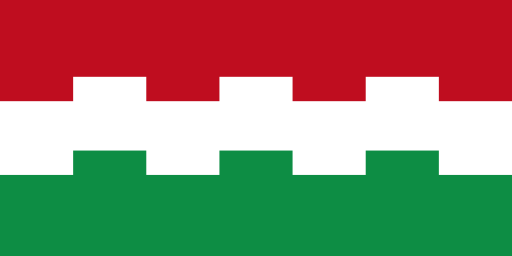 Flag of Šarkaŭščyna